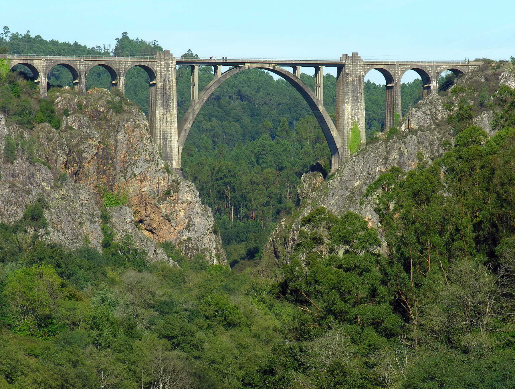 Publish by= Luis Miguel Bugallo Sánchez.